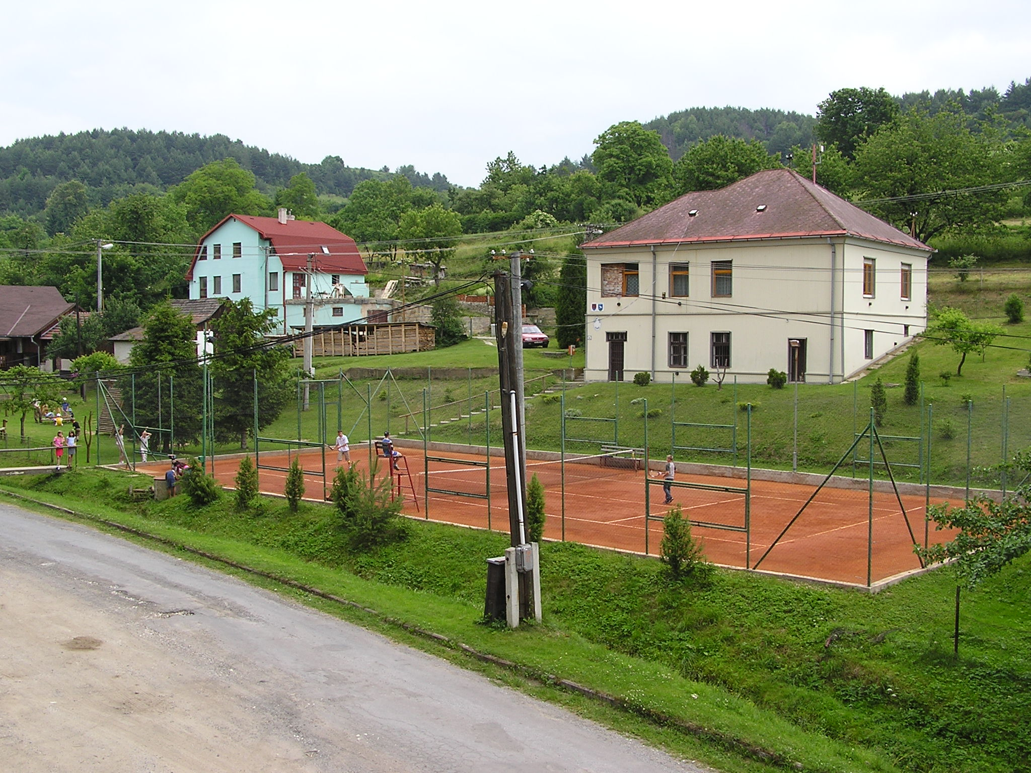 Slovakia, Presov county, Saris region, Klenov village, tenis-court